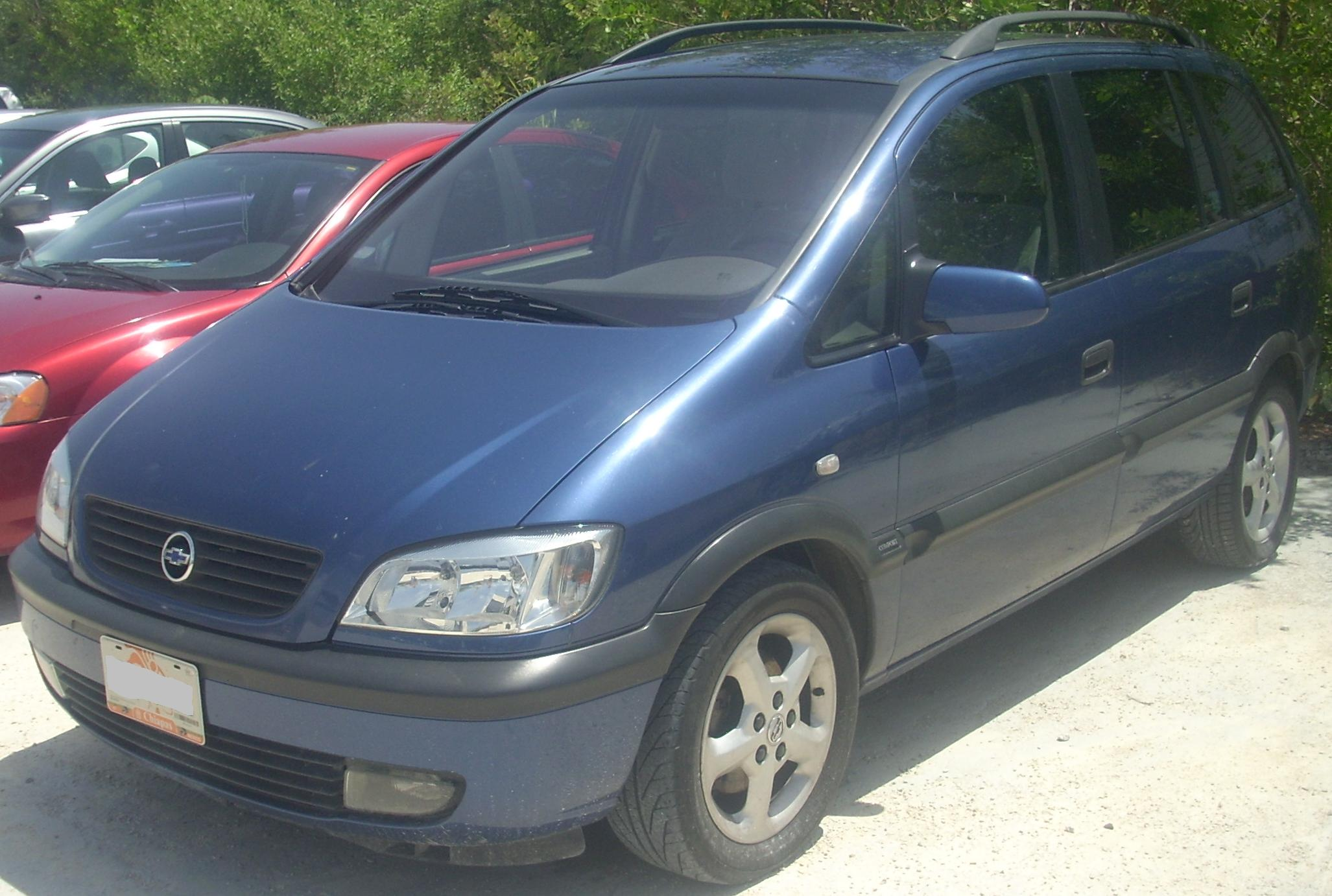 Chevrolet Zafira photographed in Cancun, Quintana Roo, Mexico.